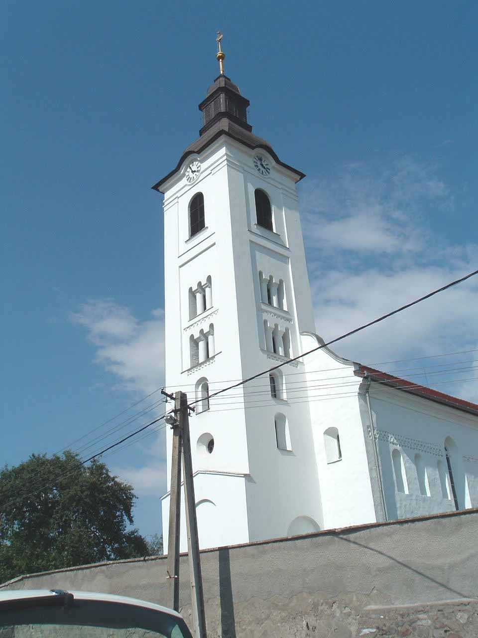 The church of Sajókaza, Hungary This is a photo of a monument in Hungary. Identifier: 3064